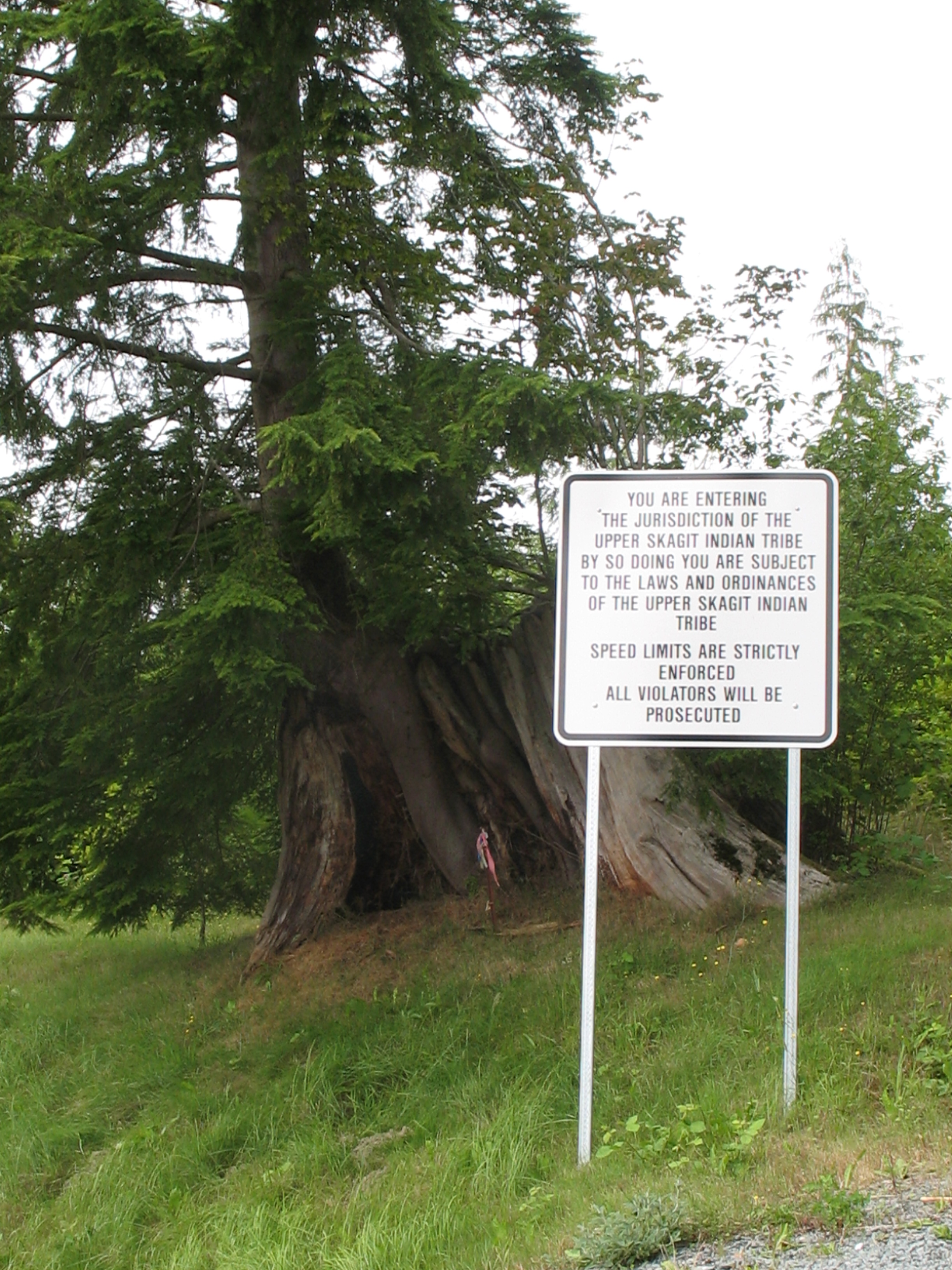 Road sign at an entrance to the Upper Skagit Indian Reservation, informing travelers that tribal law is enforced in their territory.